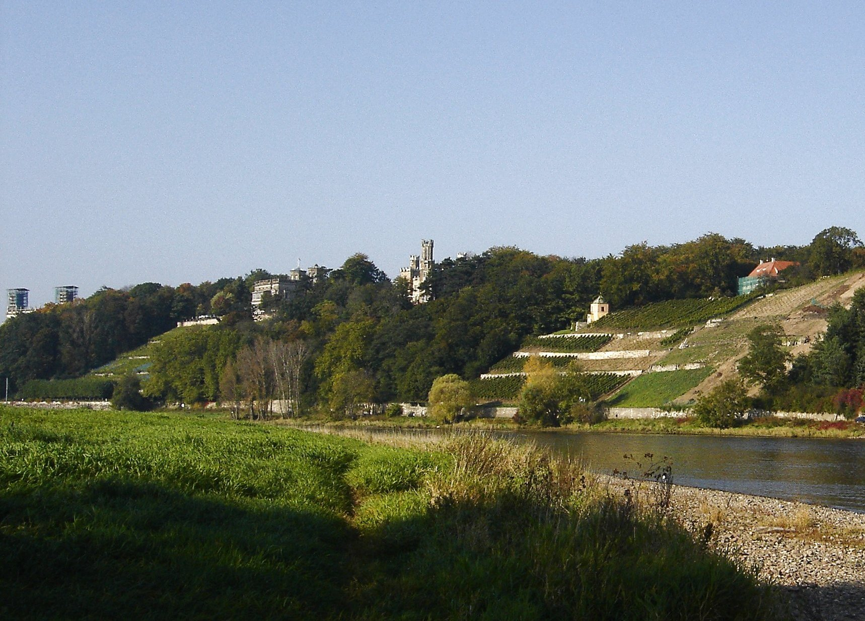 Elbe slope in Dresden near the three so called elbe castles about 3 kilometres upstream the cities central districts. The picture also shows the riparian of the river in one of its urban areas.